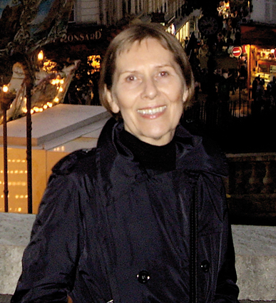 Portret of Czech designer Jarmila Jeřábková